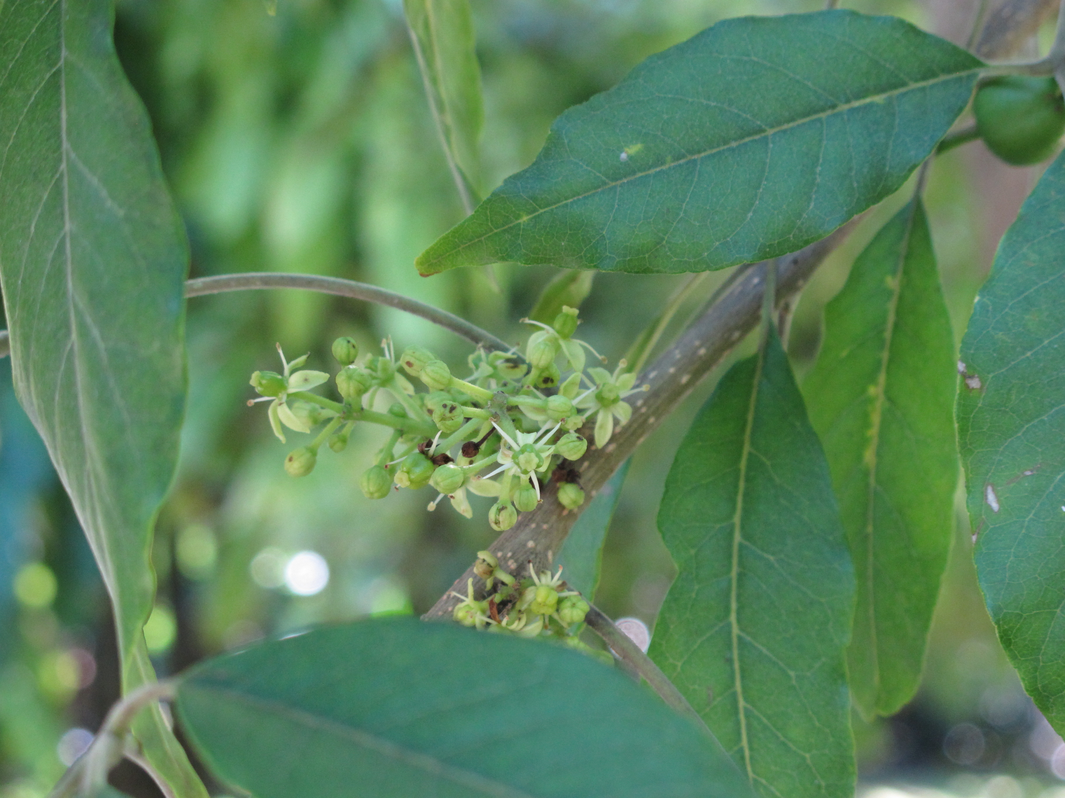 cultivated, Fairchild Tropical Botanic Garden, Miami, Florida, USA.